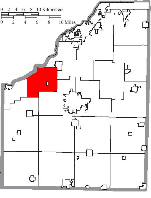 Map of the municipal and township boundaries of Wood County, Ohio, United States, as of the 2000 census, with the location of Washington Township highlighted. Township borders are shown only in unincorporated areas in order to differentiate incorporated and unincorporated areas more clearly.